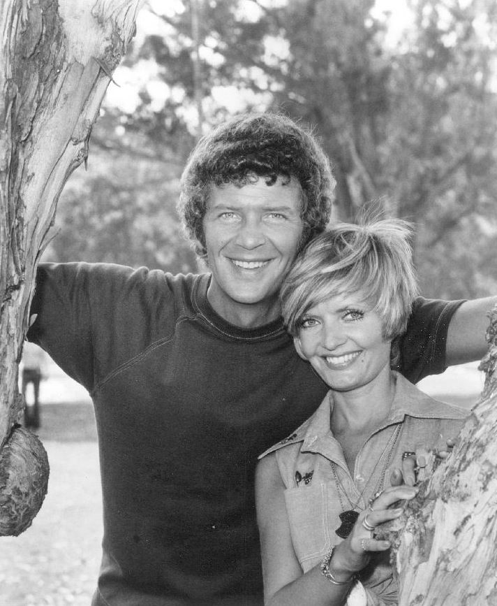 Publicity photo of American actors, Robert Reed and Florence Henderson promoting the premiere of the fifth and final season of the ABC comedy series The Brady Bunch.